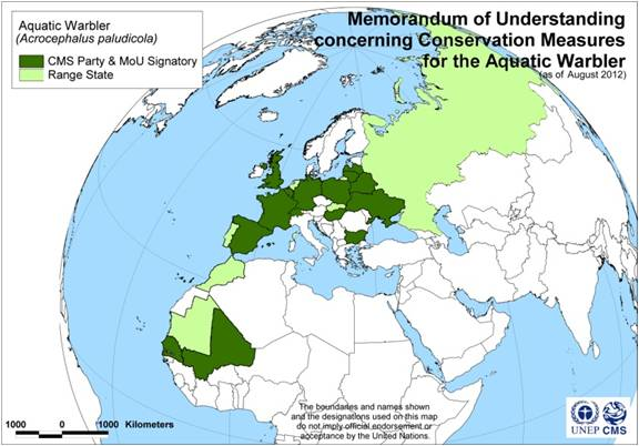 Map of Signatories to the Aquatic Warbler Memorandum of Understanding, as of 15 August 2012.